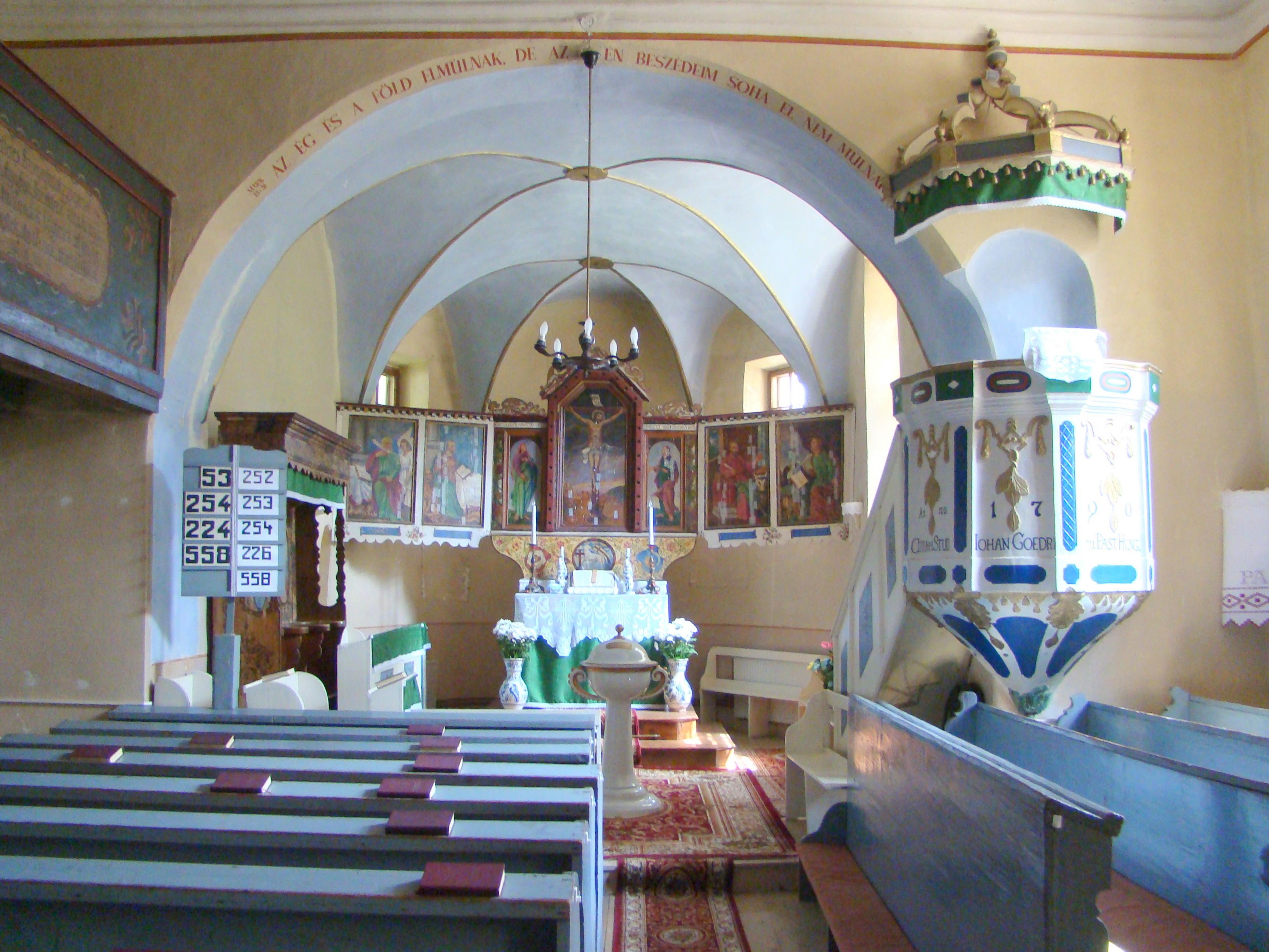 Lutheran church in Satu Nou, Brașov County, Romania